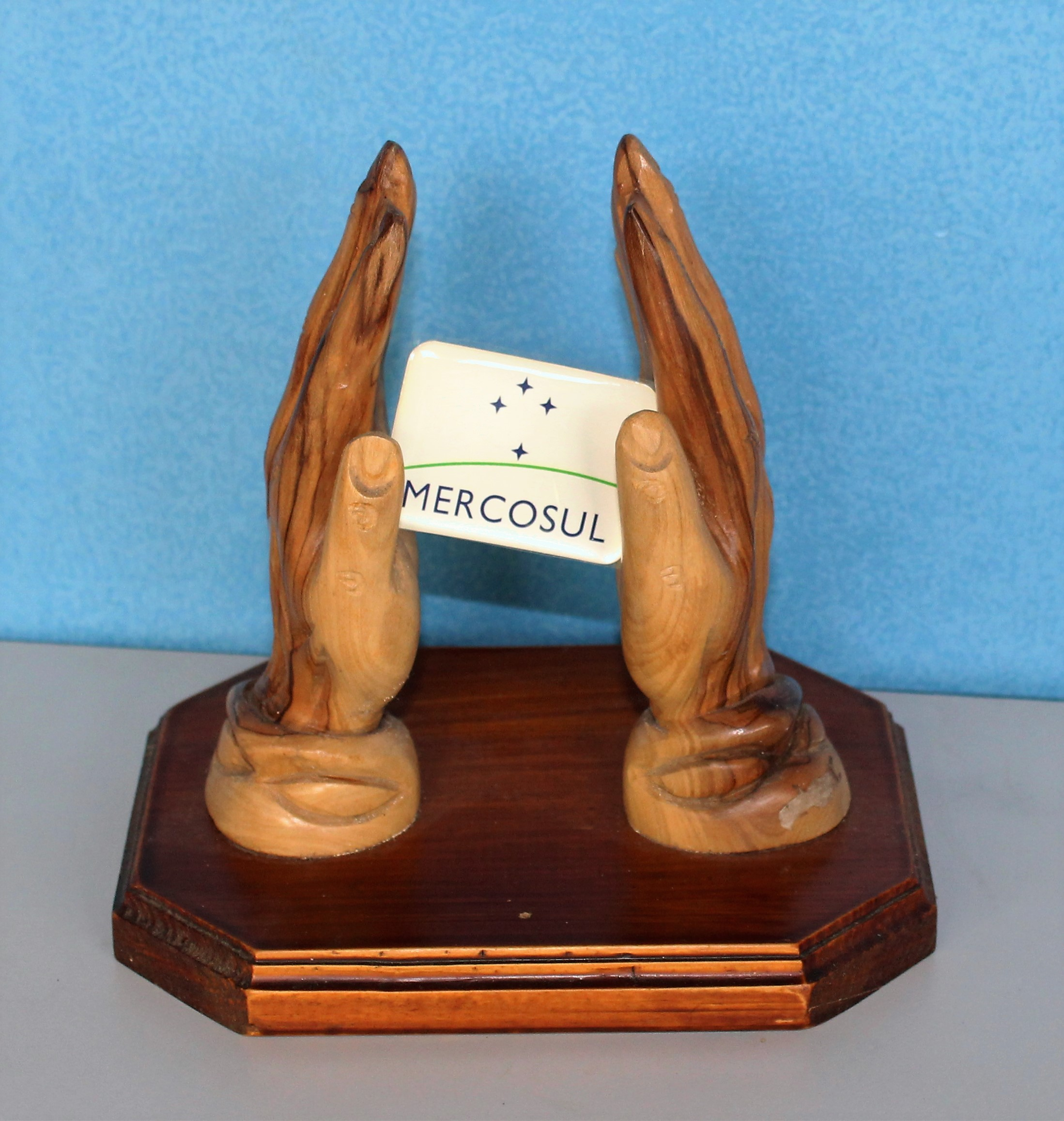 Mecosur mini flag